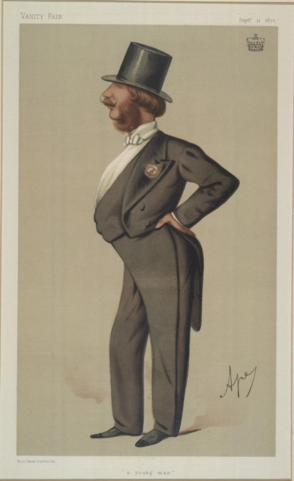 Statesmen No.214: Caricature of Lord Barrington MP. Caption reads: "a young man"